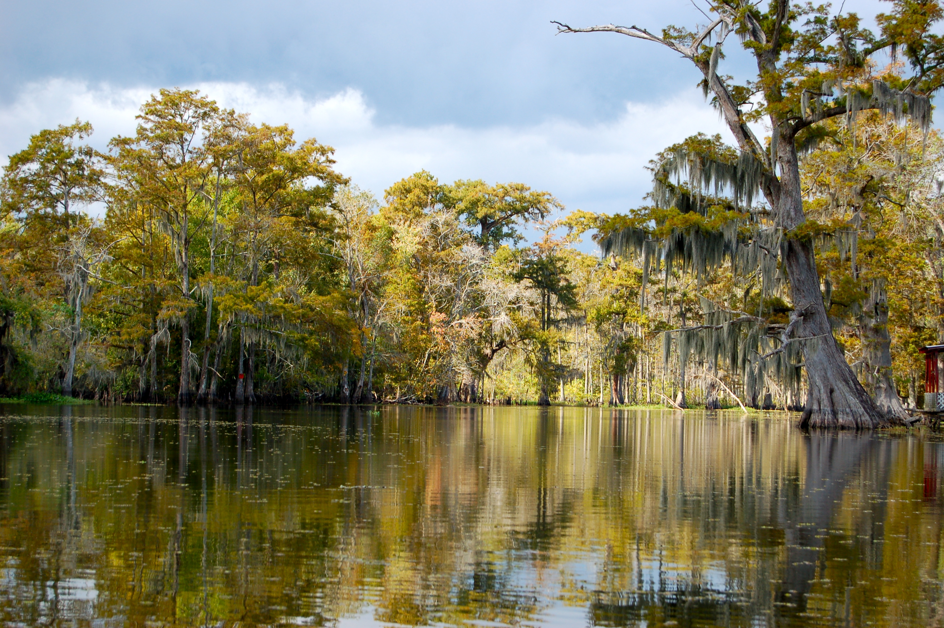 Bayou Corne, Assumption Parish, Louisiana